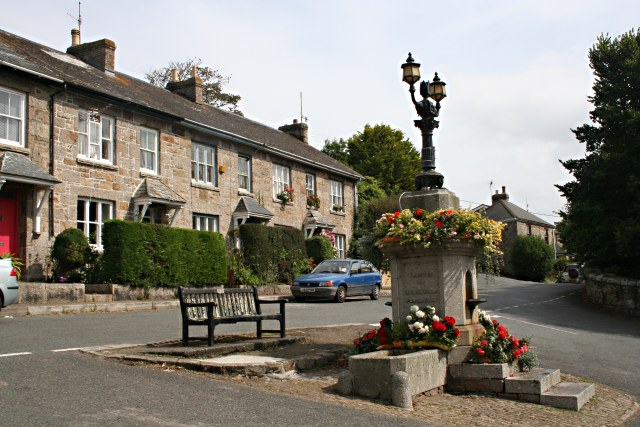 Gulval Village An ornate drinking fountain, designed for both humans and horses but now used as a floral display, acts as a centrepiece to the road junction north of Gulval church.